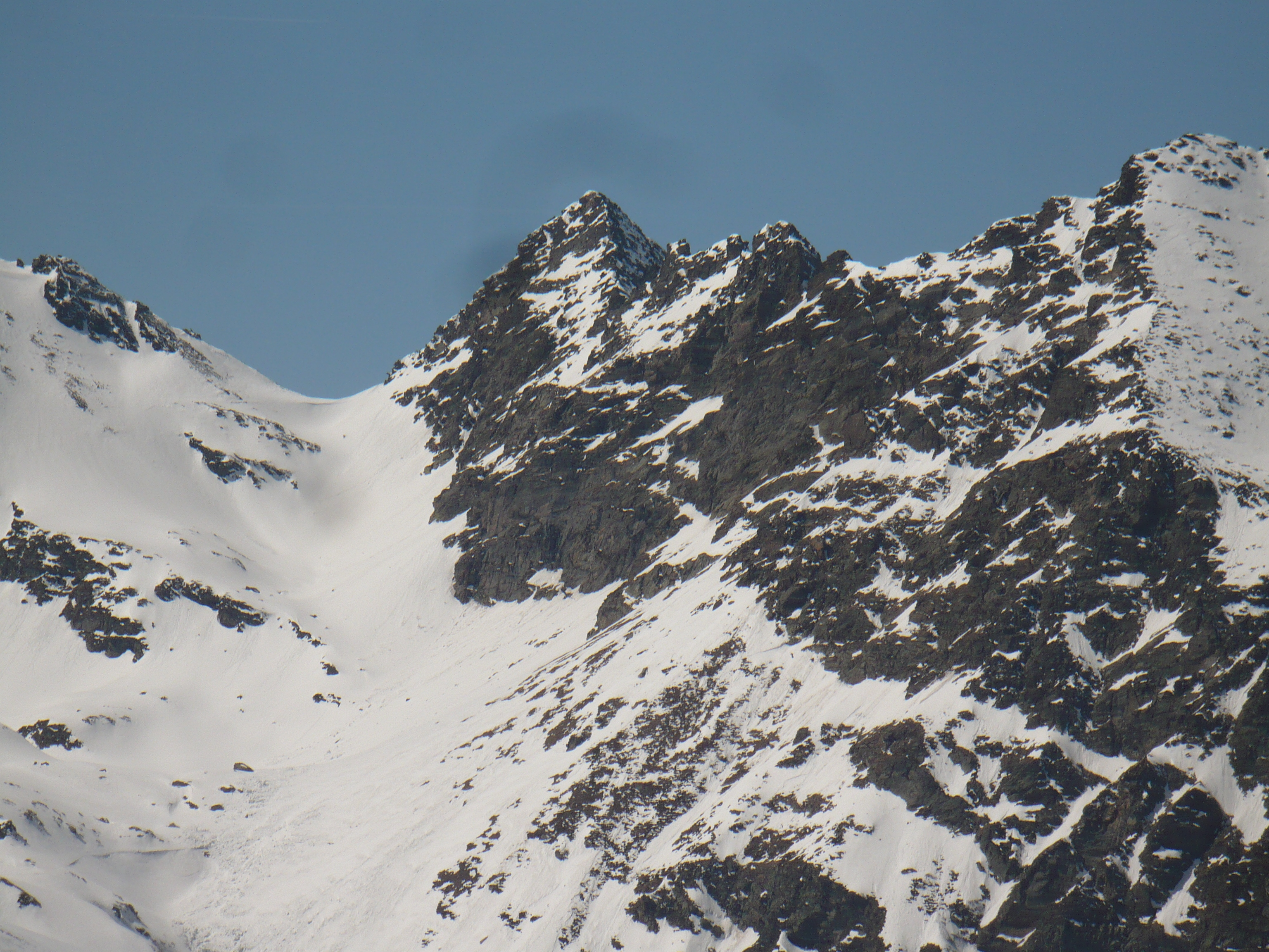 Punta Cornour - Cottian Alps - Province of Turin - Piedmont - Italy